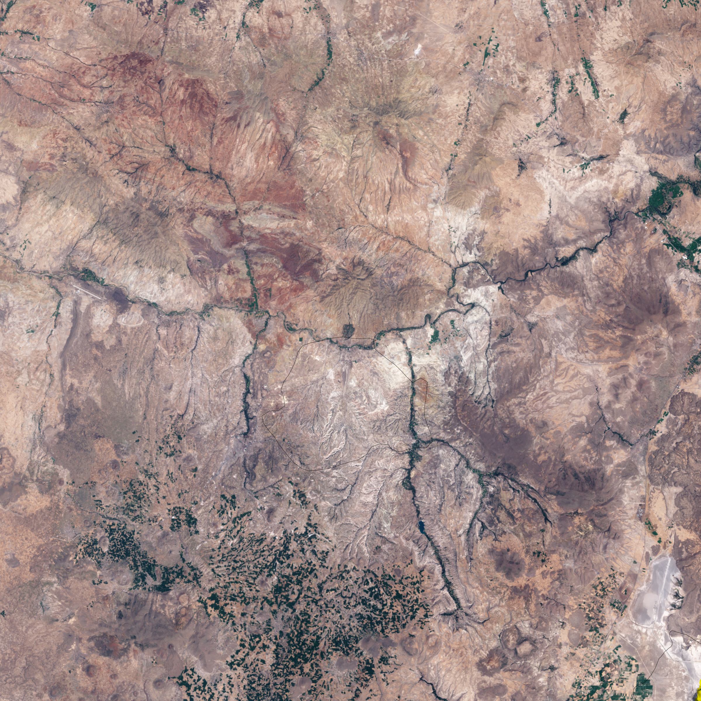 This is an image of Göreme National Park and its surroundings in Cappadocia, Turkey. A black outline delineates park boundaries. Although the satellite’s perspective doesn't quite match the spectacular scenery from the ground, Göreme’s rugged landscape is obvious, with light and shadow highlighting the peaks and valleys. This photo-like image shows the region in variegated earth tones, punctuated by the deep green of vegetation-lined waterways and irrigated fields in the south.